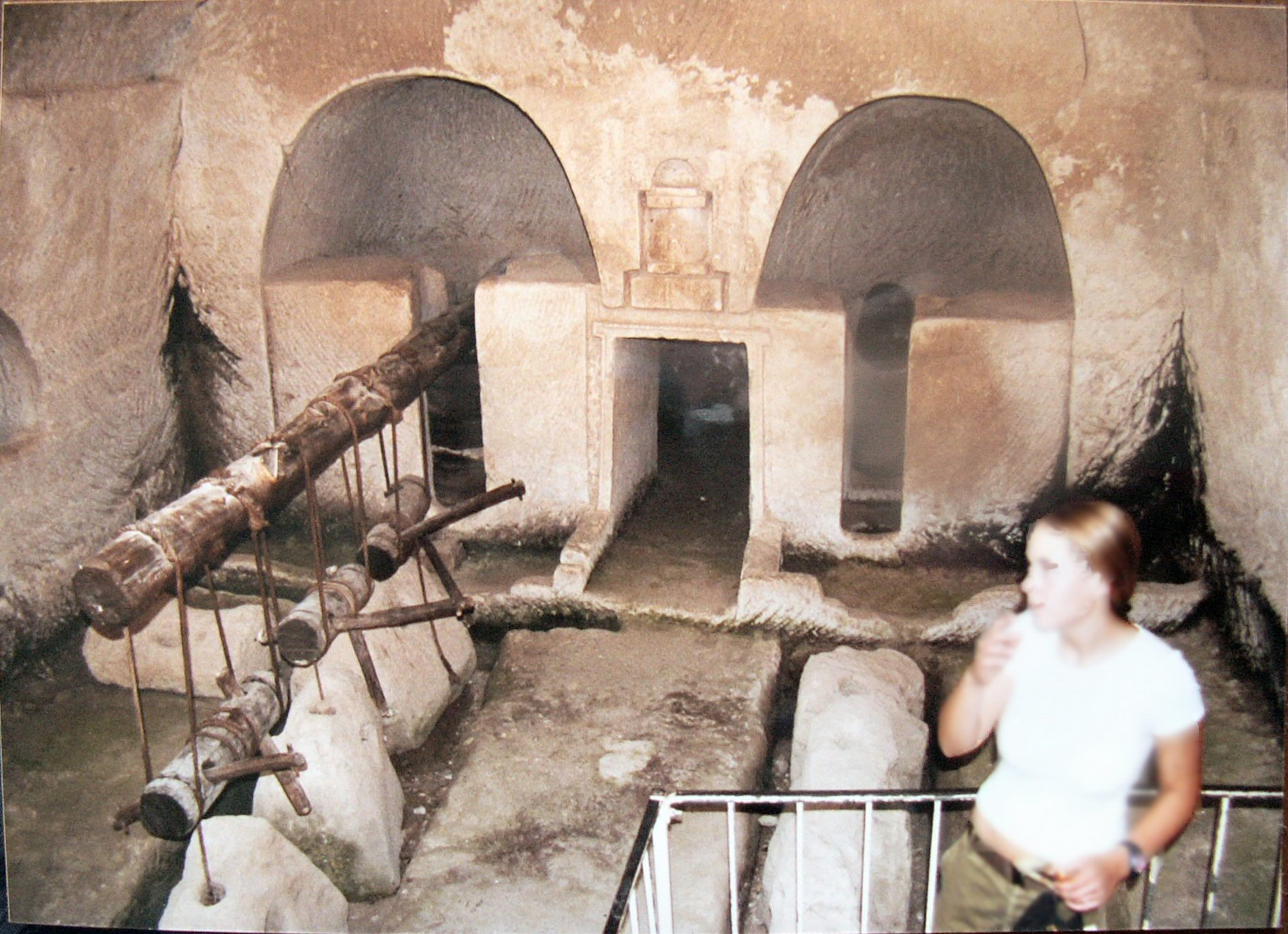 Oil Press, restored, Maresha excavation.